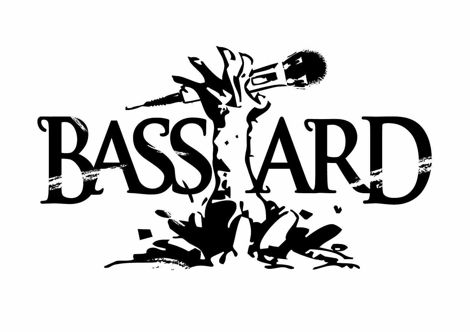 Logo of the rapper MC Basstard.